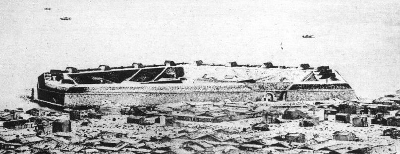 The Japanese battery 弁天台場 (Benten Battery) before 1908, this battery was used on 箱館戦争 (Hakodate War), 1869